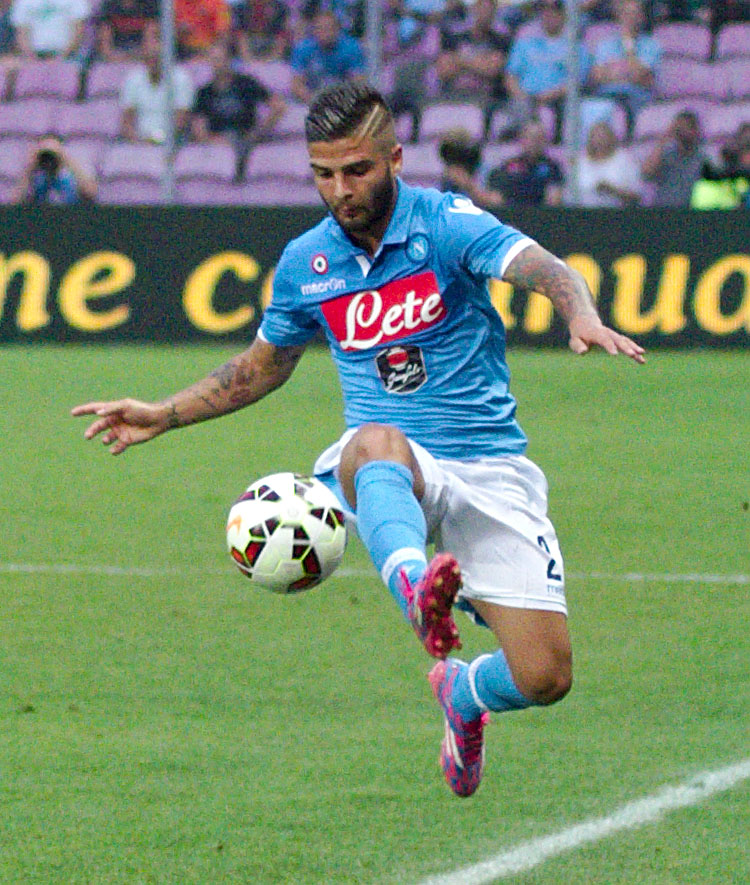 Geneva, August 6, 2014. FC Barcelona v SSC Napoli (0-1), exhibition game. Napoli's forward Lorenzo Insigne in action.